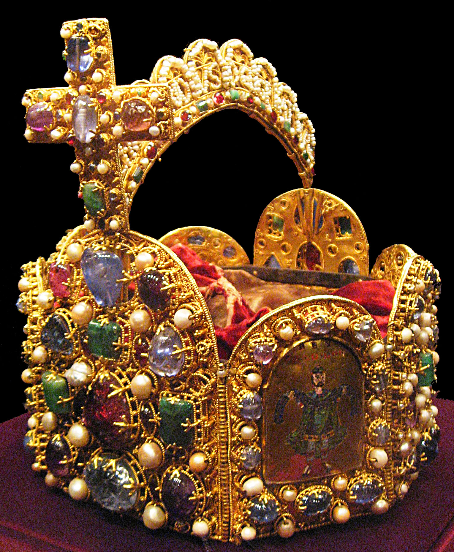 Cleaned up version of previous photo Summary Description